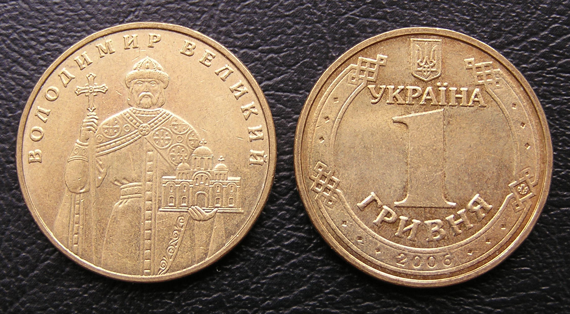 Coin. 1 hryvnia Ukraine. Vladimir I of Kiev